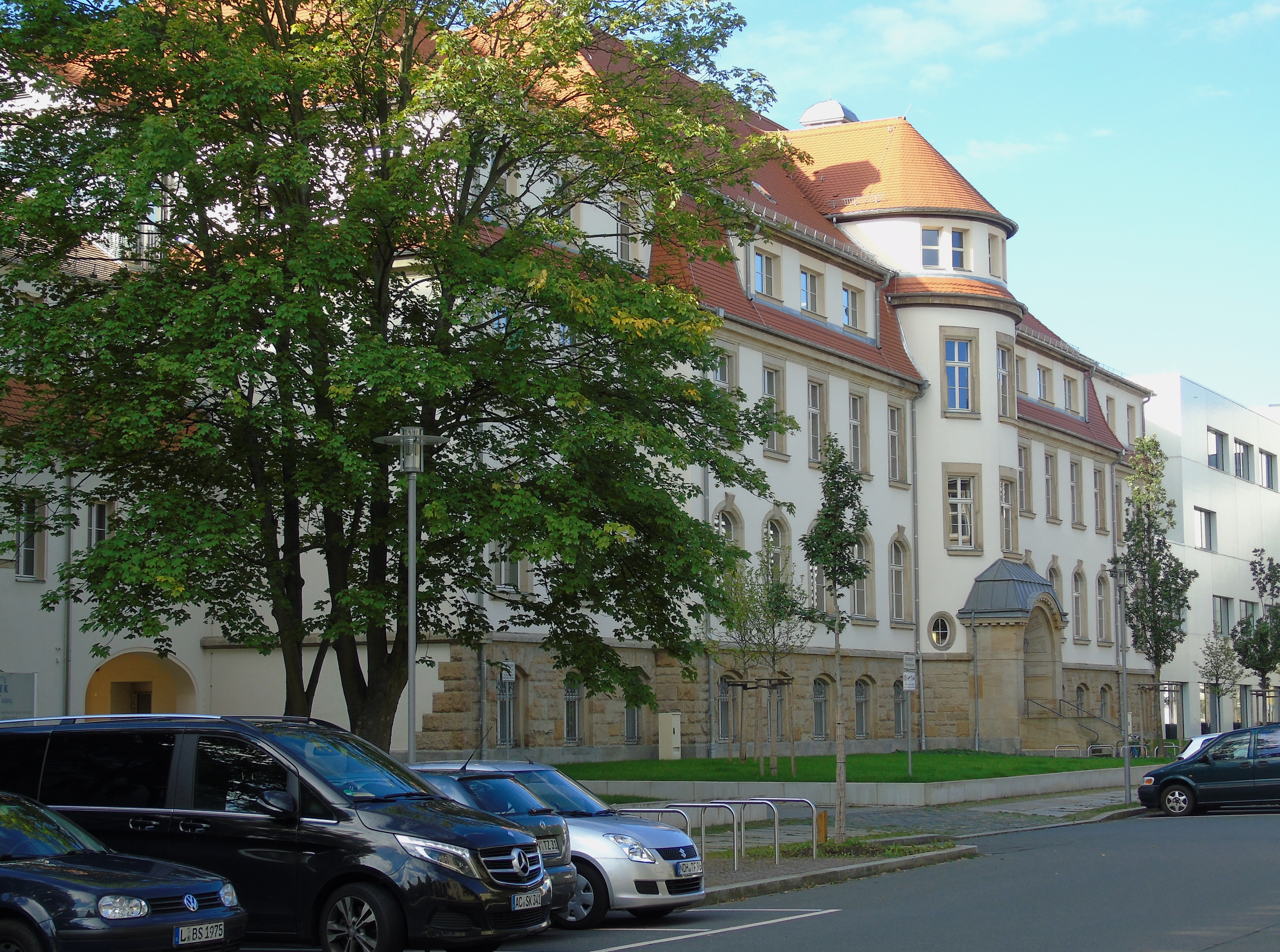 Gutenberg building of the Hochschule für Technik, Wirtschaft und Kultur in Leipzig, faculty of media